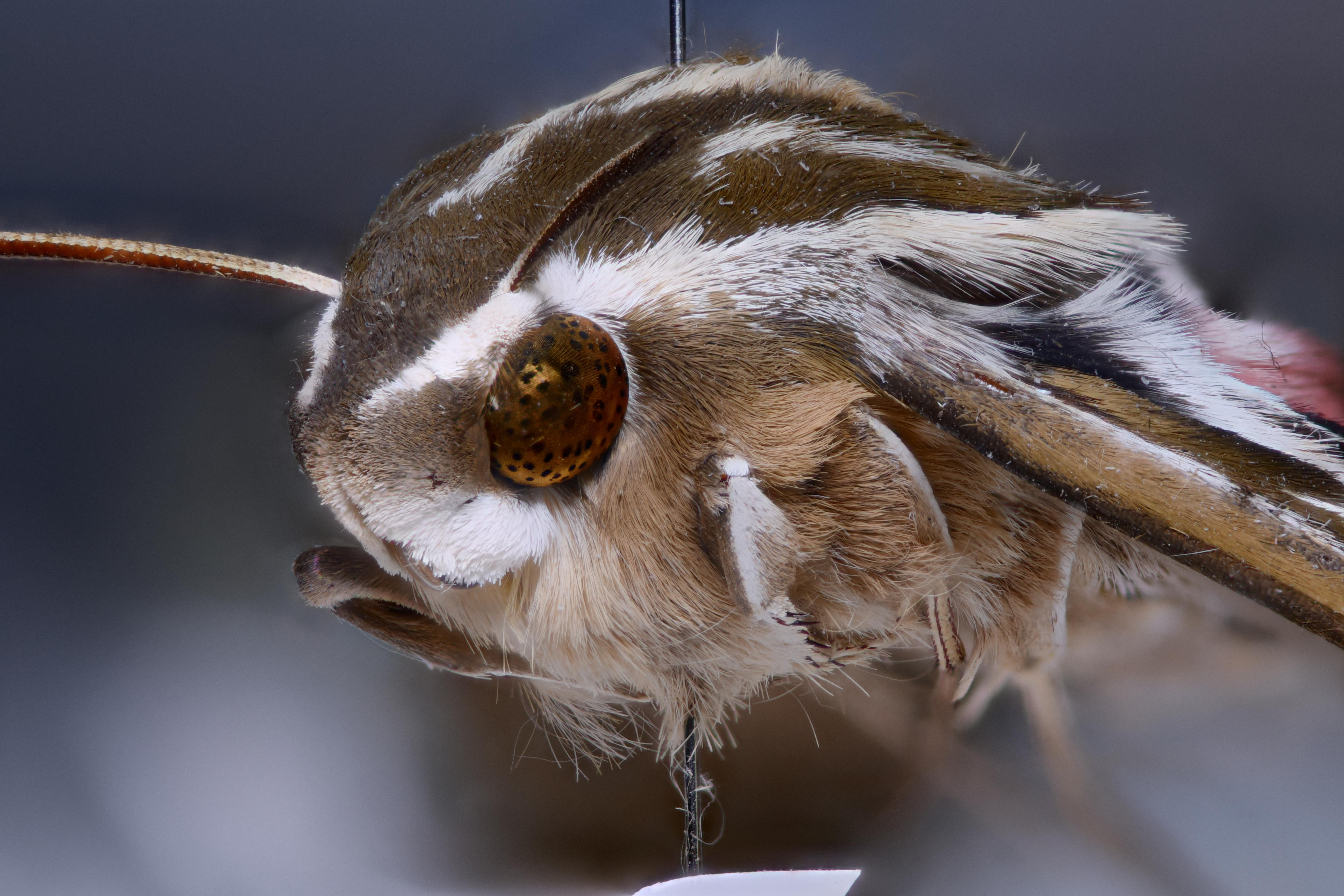 Hyles lineata close-up of eye & head